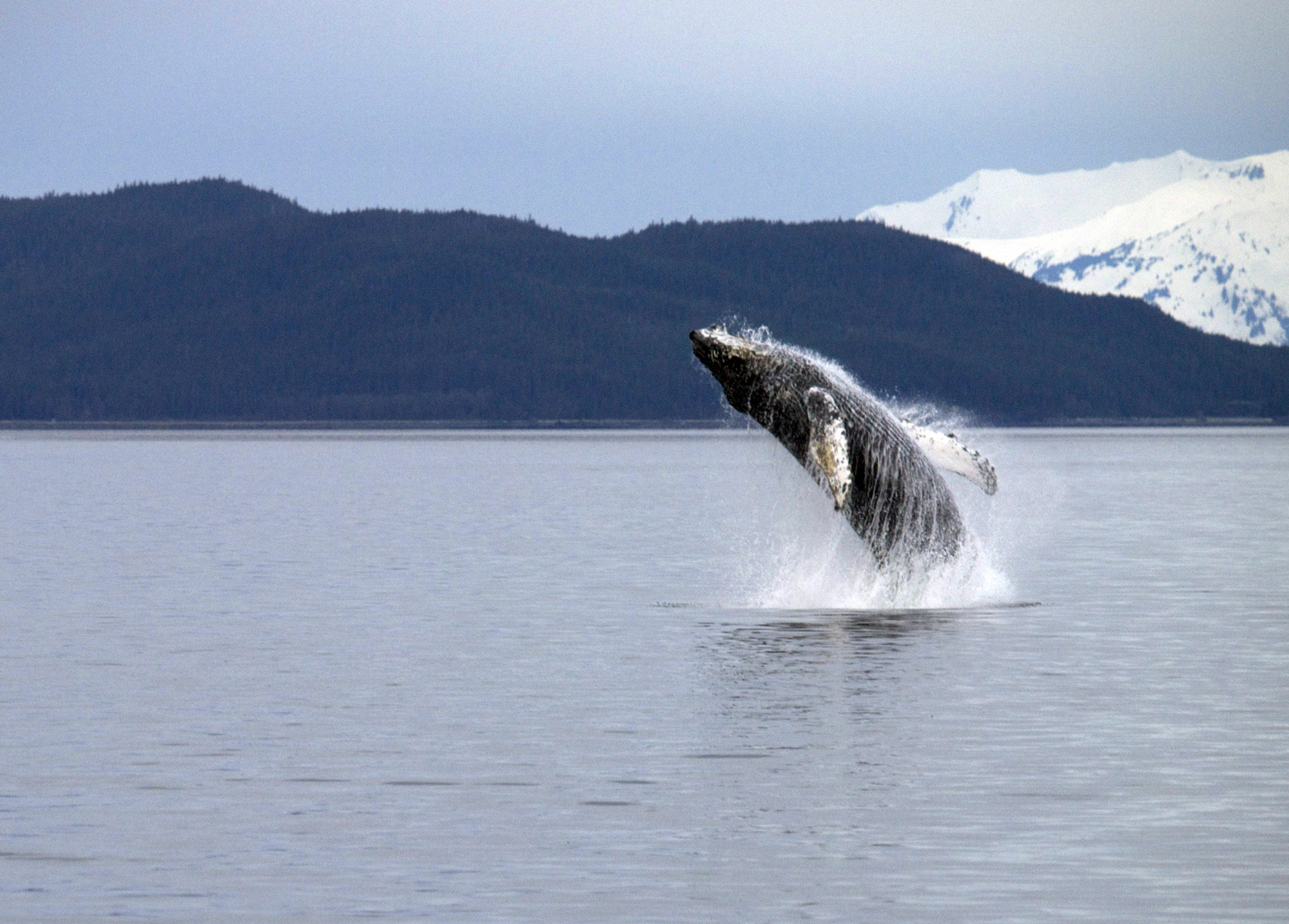 Early morn breach from half mile away